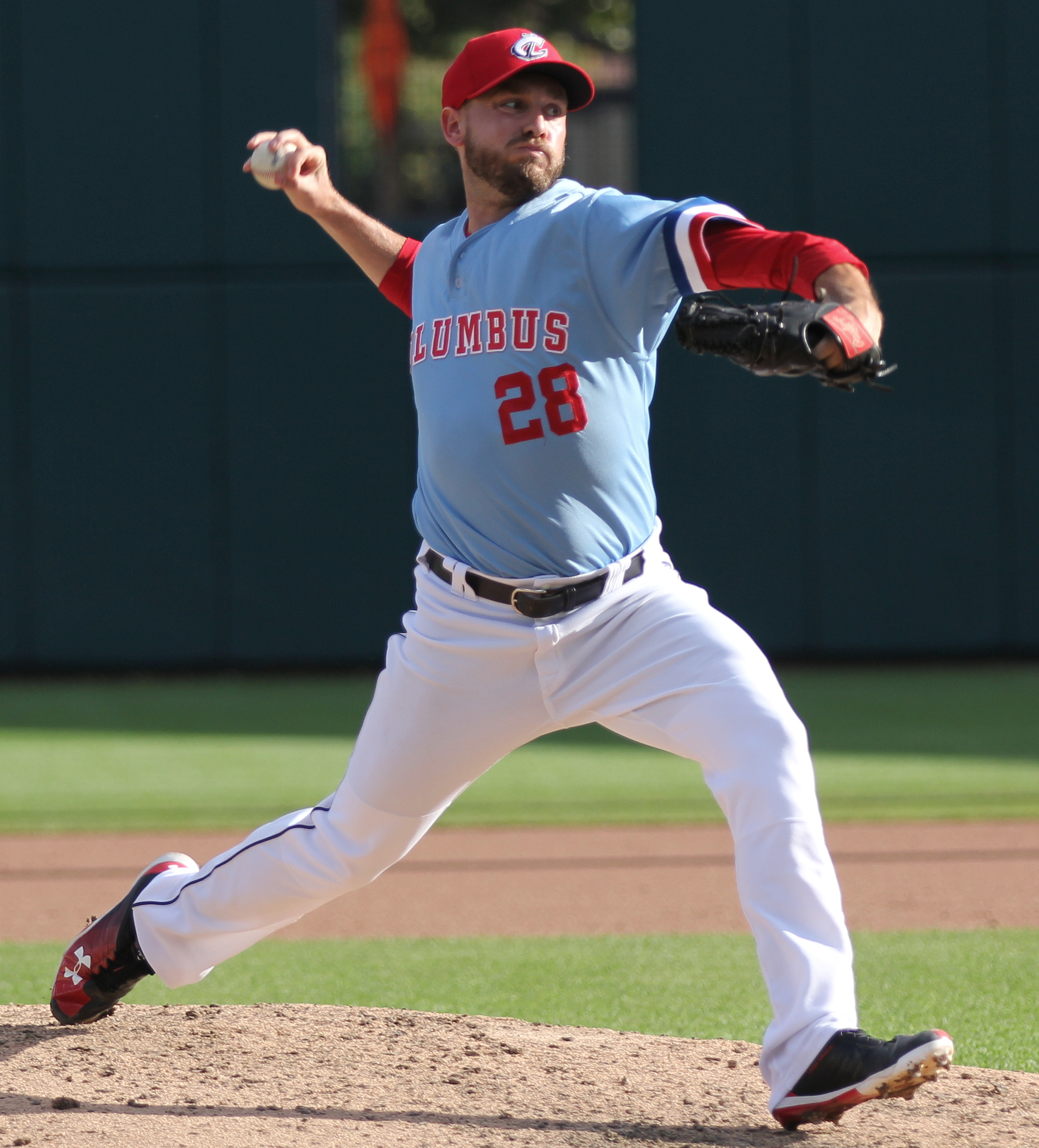 Cole Sulser delivers a pitch for the Columbus Clippers during a 2018 game at Huntington Park